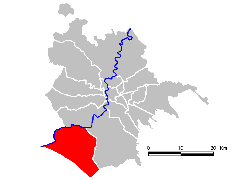 Locator maps of Rome